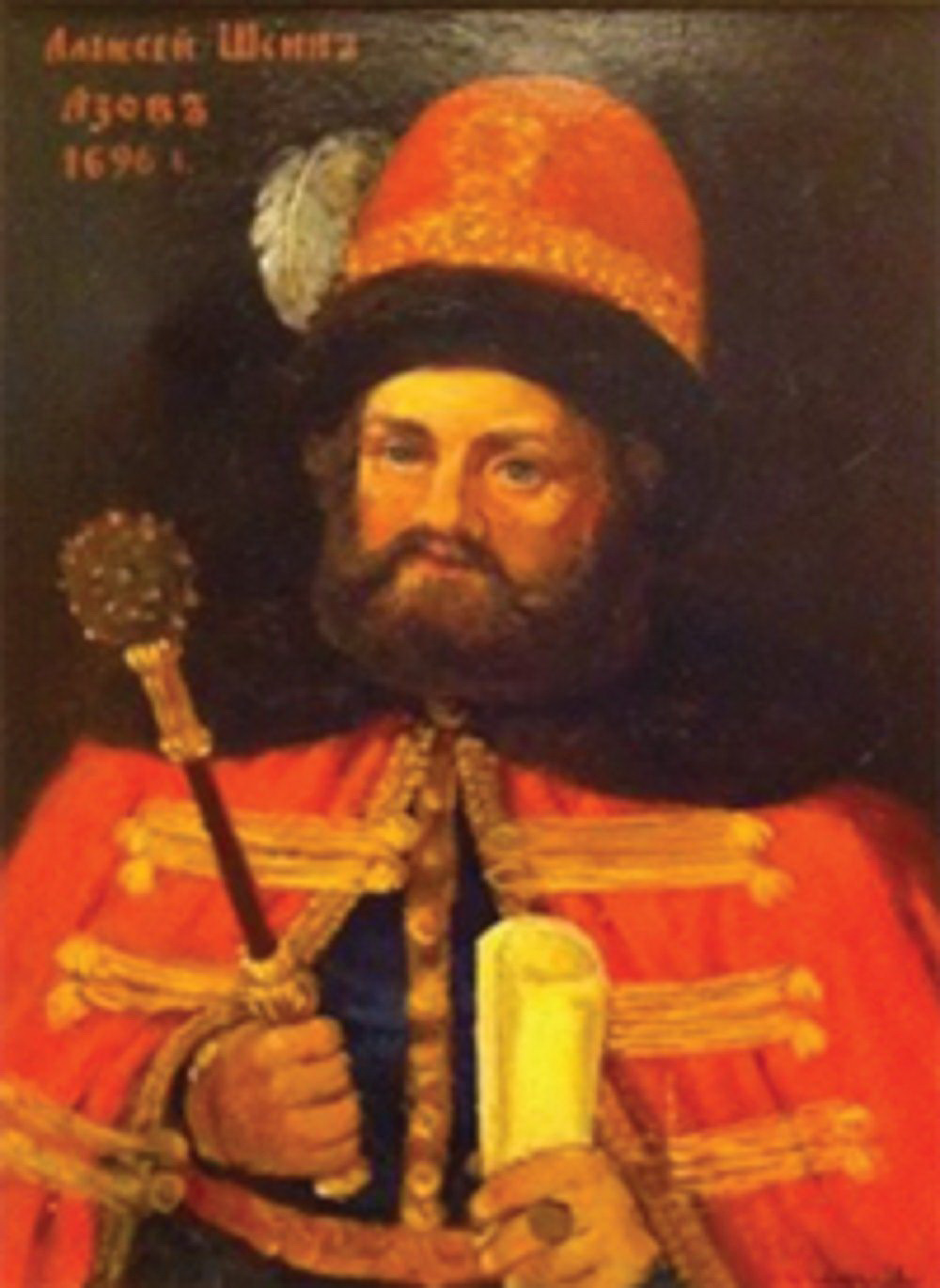 Aleksei Shein.